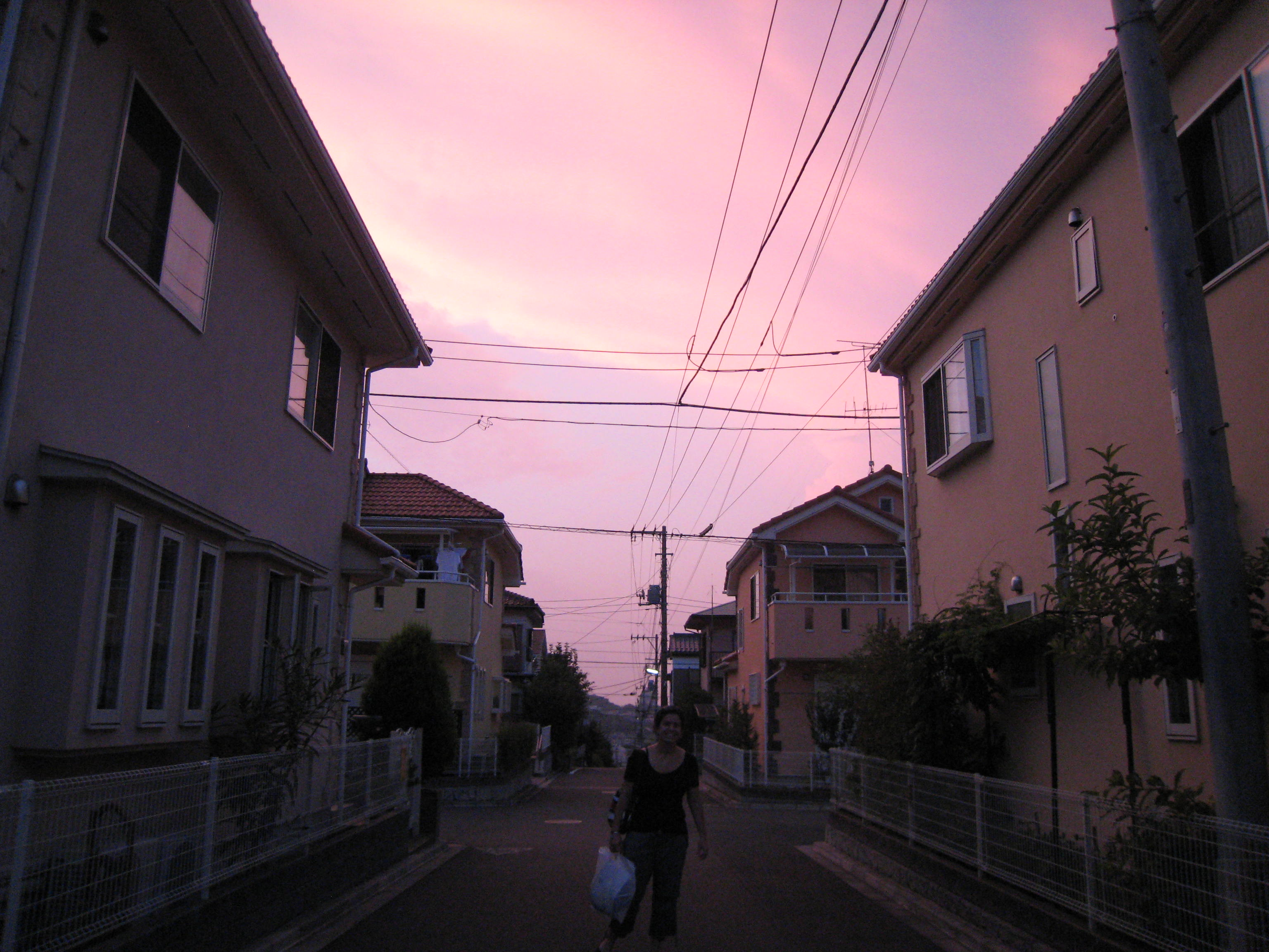 Neighbourhood in Tama New Town in western Tokyo, Japan.